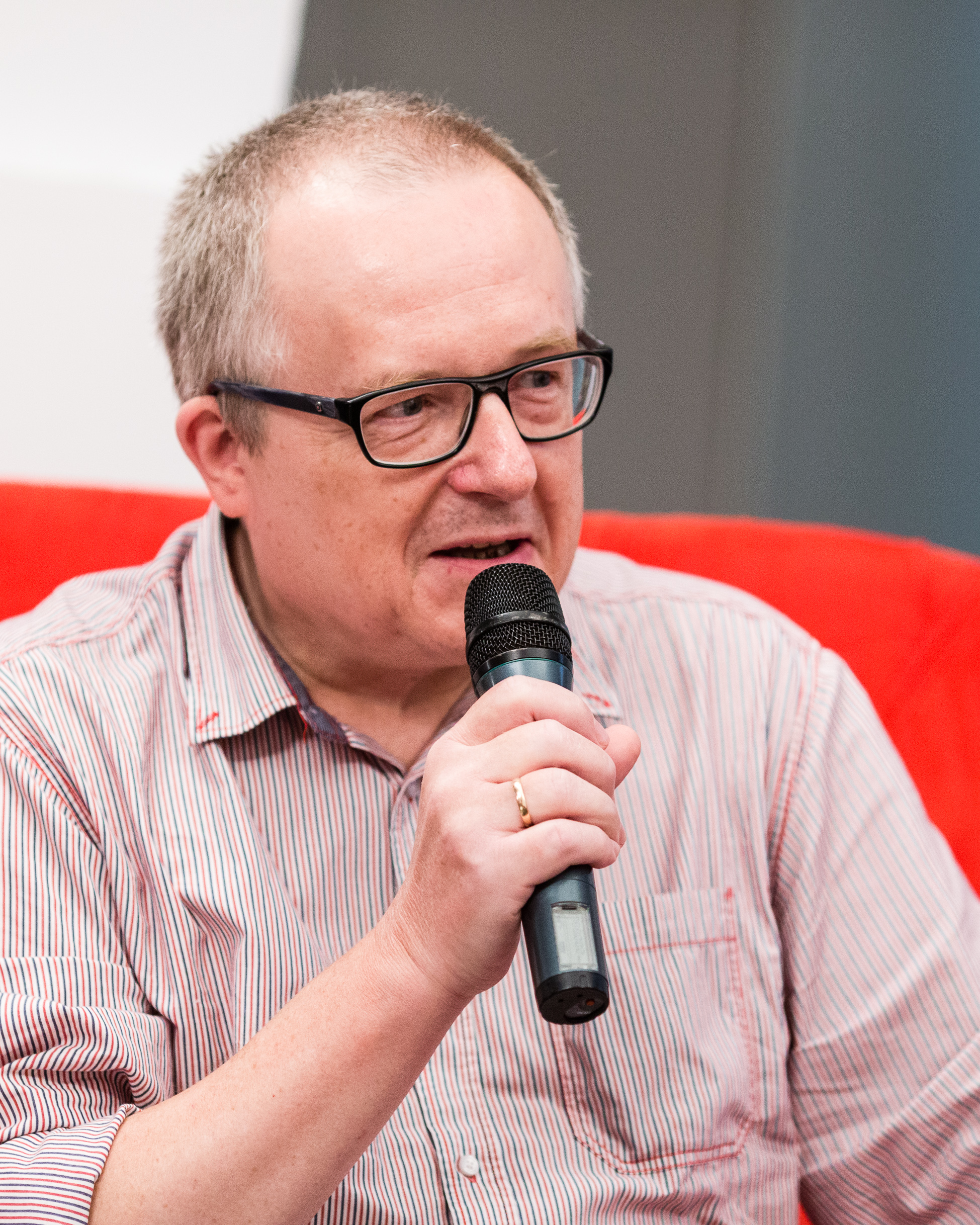 Adam Poprawa as a moderator during Authors’ Reading Month 2019, Wrocław, Poland